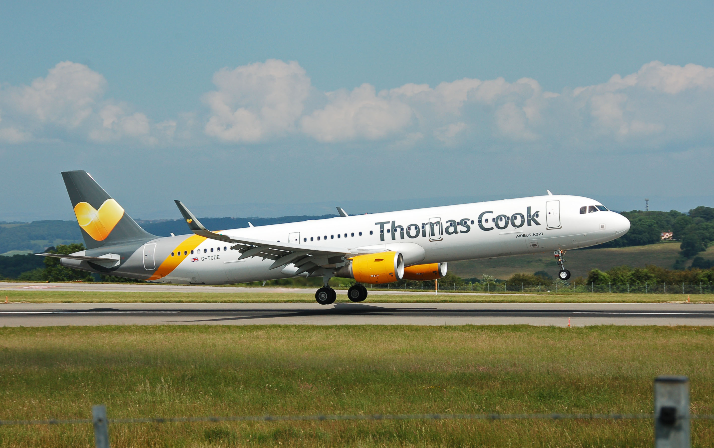 Thomas Cook Airlines Airbus A321-200 (G-TCDE) lands at Bristol Airport, Bristol, England. The aircraft is in the new "Sunny Heart" livery.